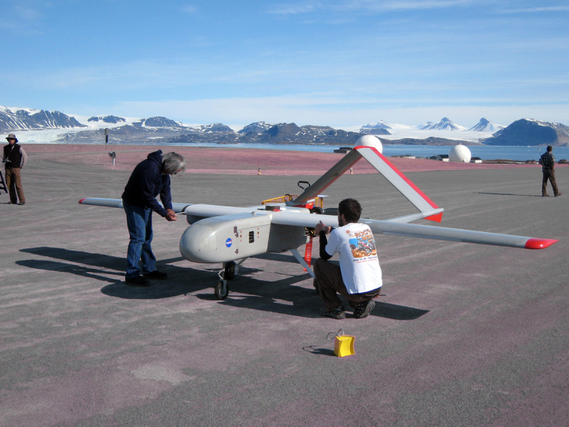 SIERRA unmanned aircraft check-out on runway at Ny-Ålesund prior to first test flight.